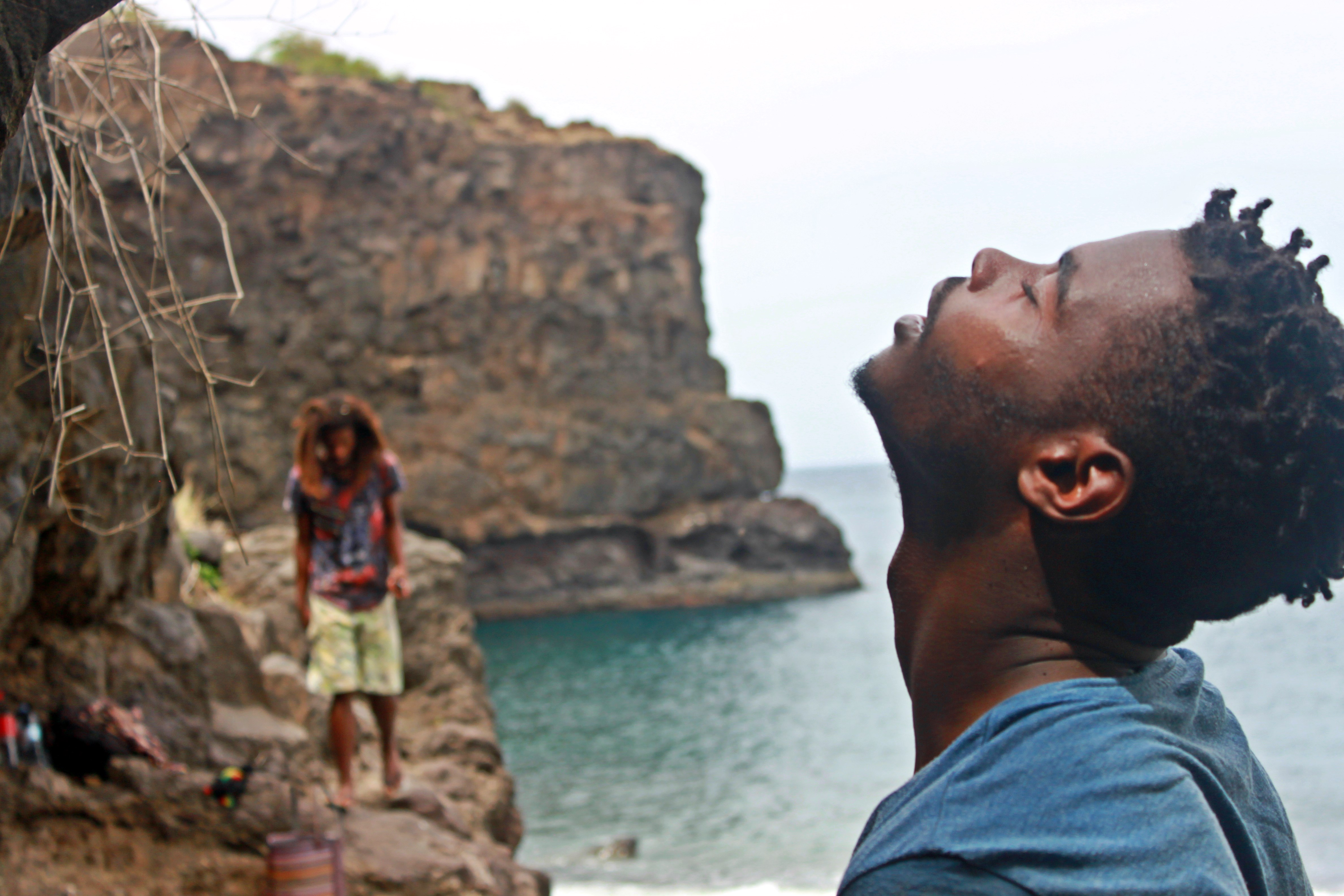 Ider Riley #AstroBoy relaxing in Aguas Belas, Santiago This is an image of "African people at work" from Cape Verde